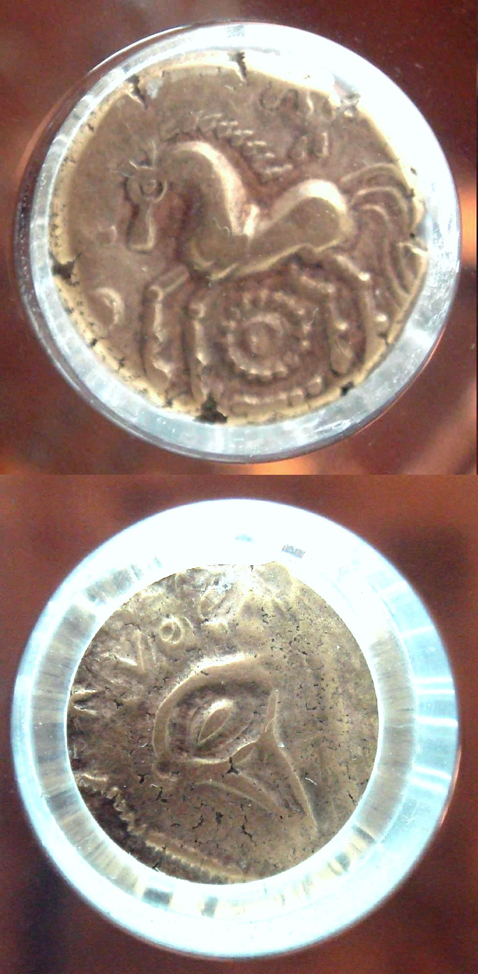 Treviri_Stater_gold_6000mg